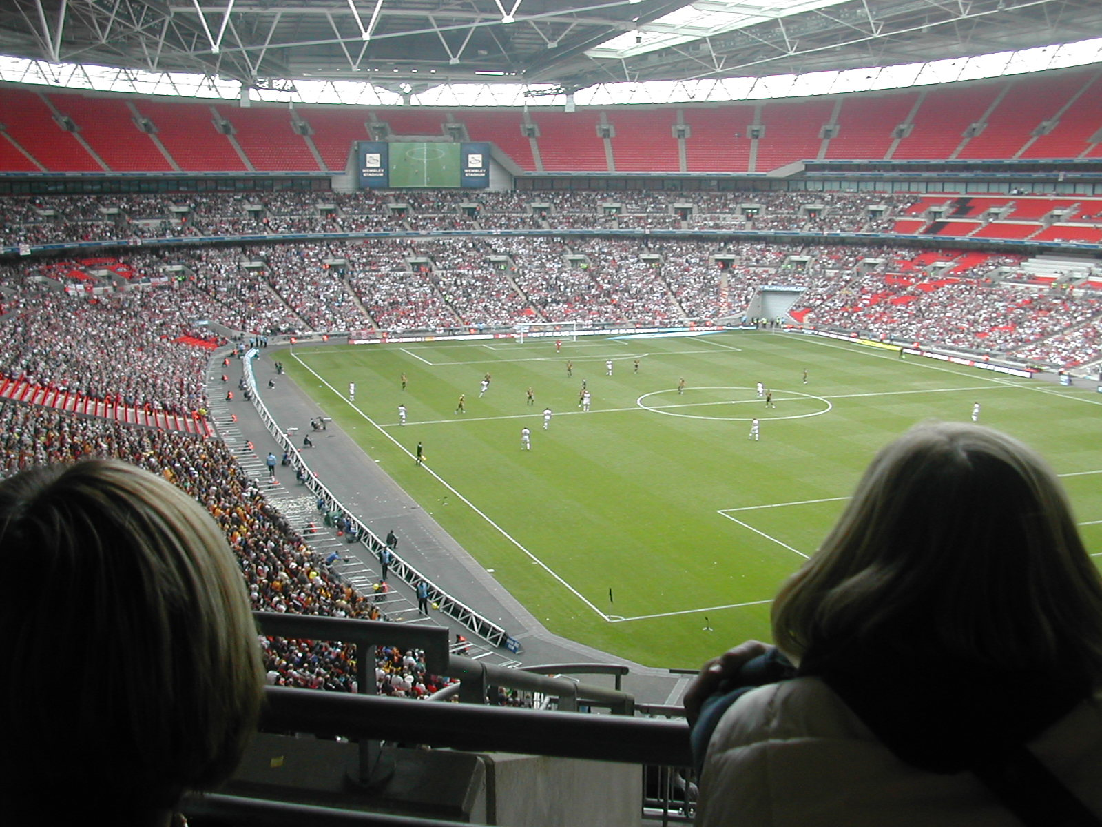 Own personal work.... Cambridge united playing Exeter city at Wembley